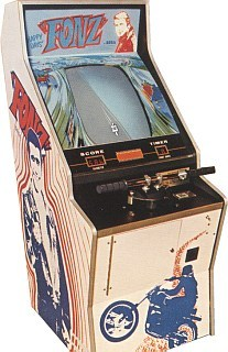 fonz 1976 sega arcade cabinet from my own collection